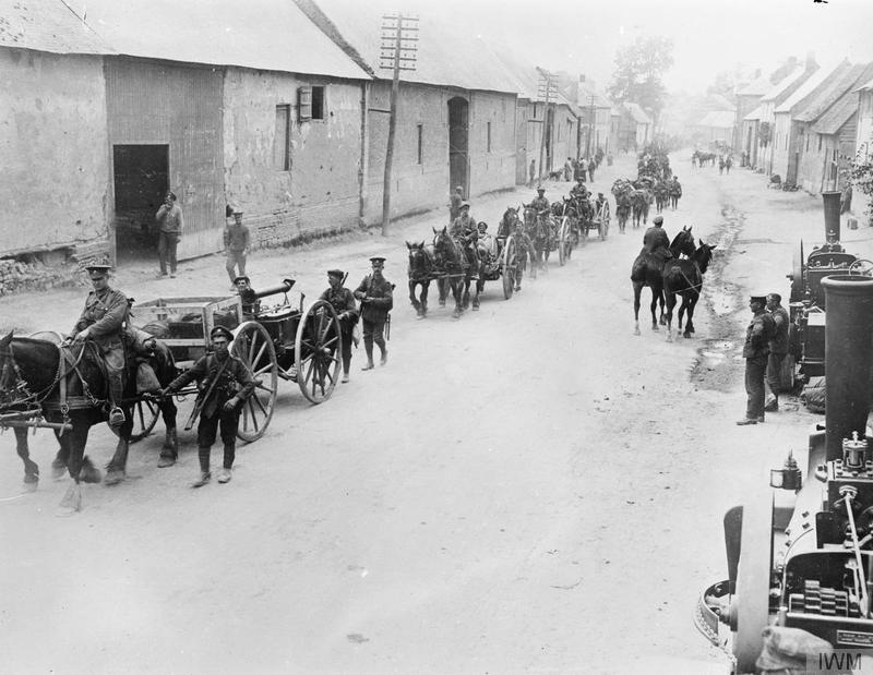 The Battle of the Somme, July-november 1916 The regimental transport of the 10th Battalion, East Yorkshire Regiment (Hull Commercials) marching to the front line; near Doullens, 28th June 1916.